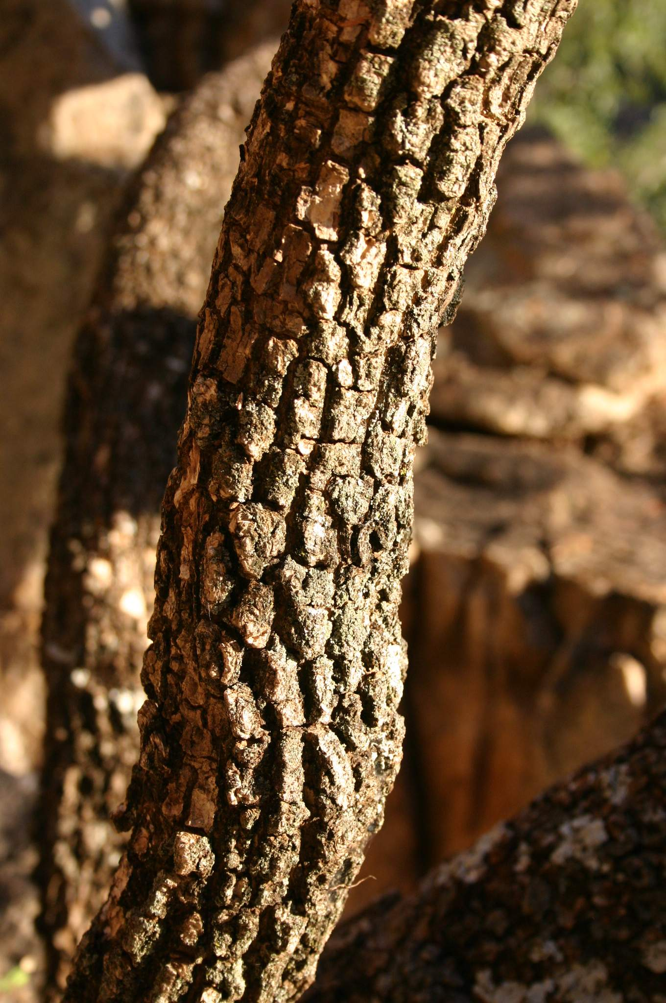 Croton gratissimus bark at Hamerkop near Sparkling Waters, Magaliesberg, South Africa